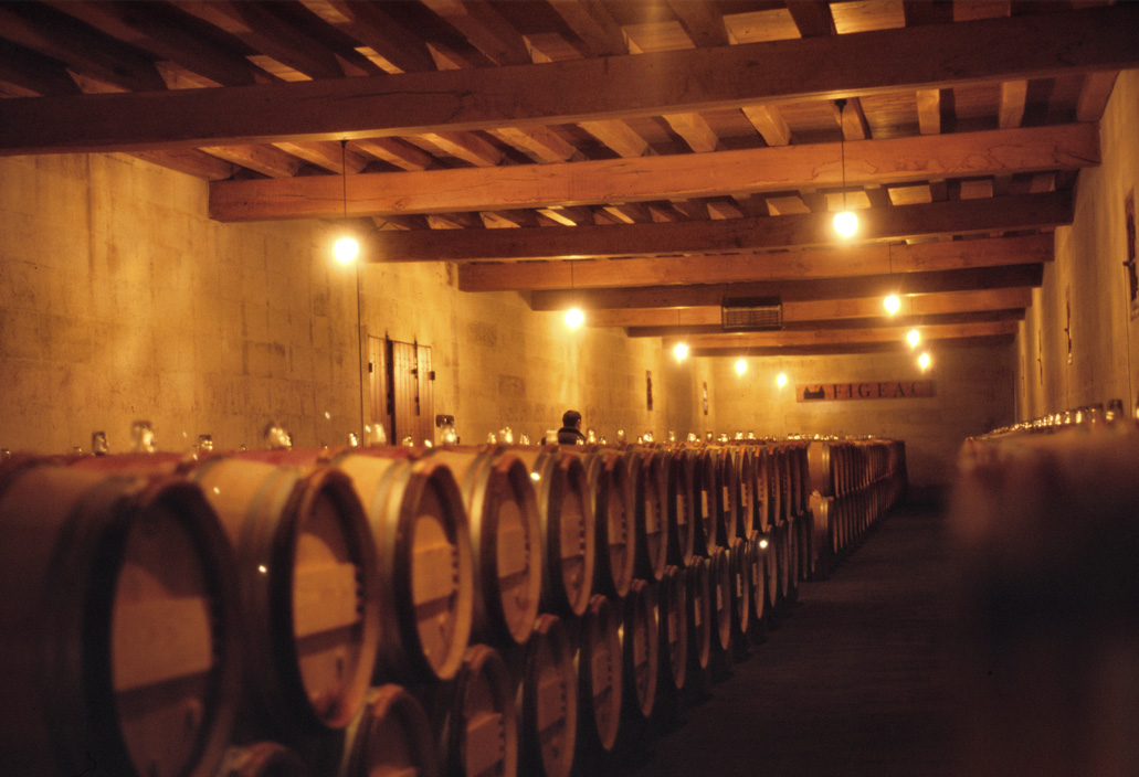 Wine barrels, Château Figeac, Saint-Emilion, France